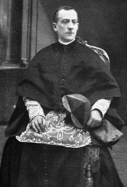 picture of Luigi Macchi, Cardinal Protodeacon